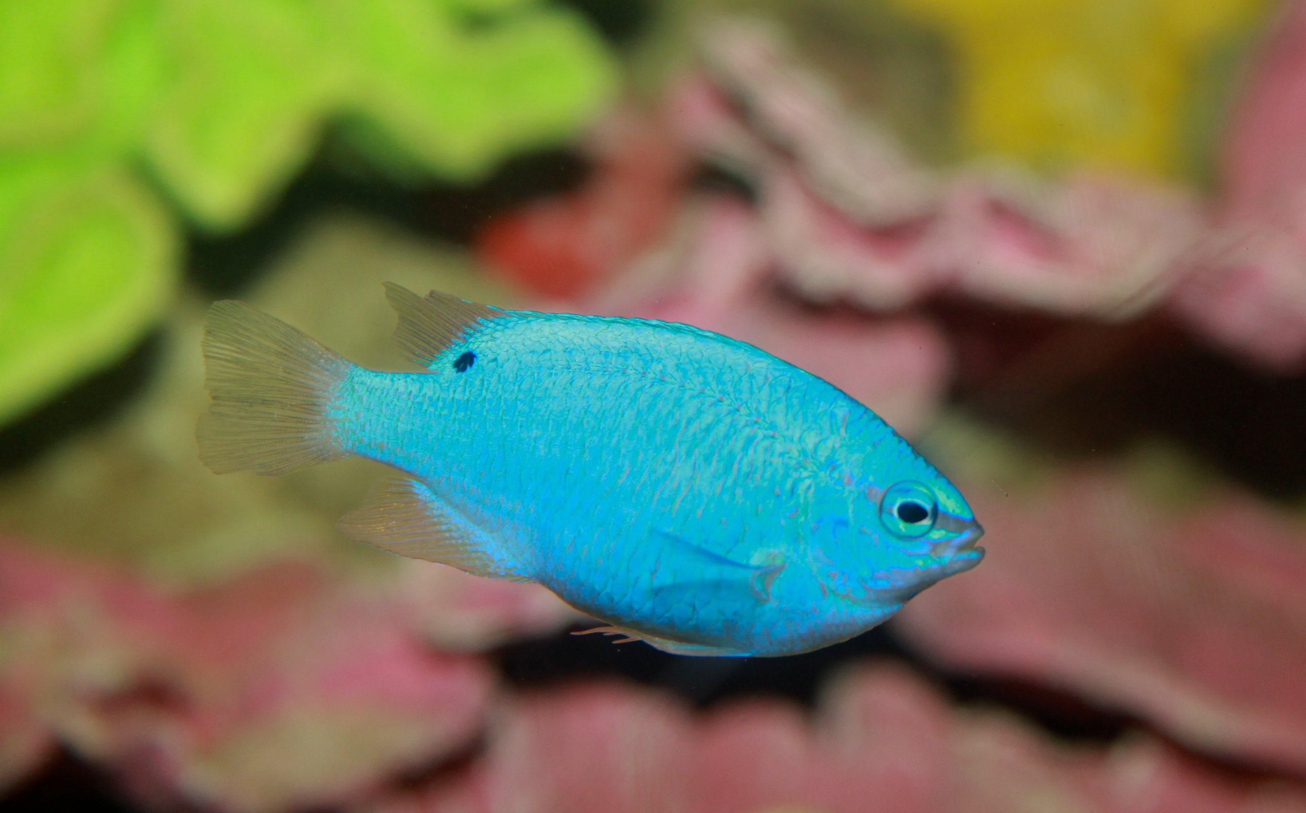 Blue Damselfish Chrysiptera cyanea